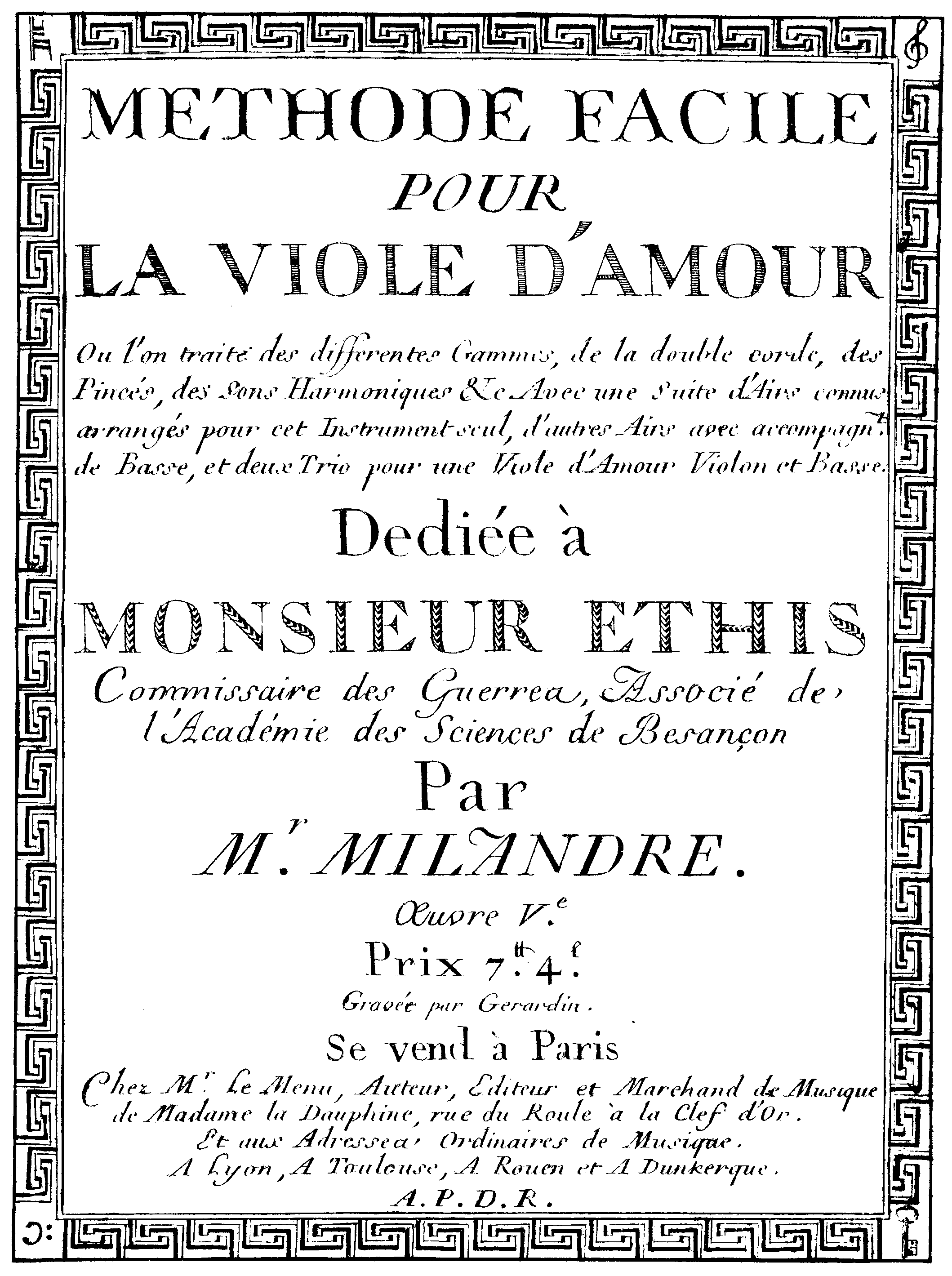 Title page of 'Méthode facile pour la Viole d'Amour' by Louis Toussaint Milandres (1782)